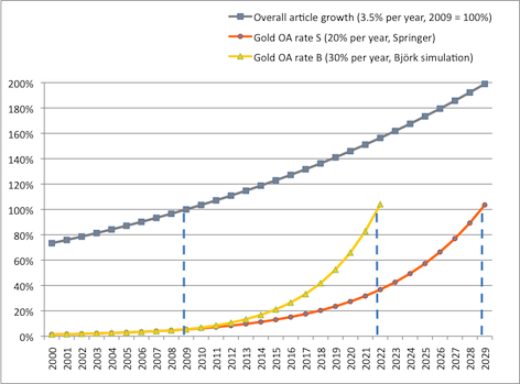 This graphic was created by Yassine Gargouri and Stevan Harnad to illustrate the Gold OA growth curves of Springer and of Laakso et al. It appears in: Poynder, Richard (2011). Open Access By Numbers Open and Shut June 19, 2011